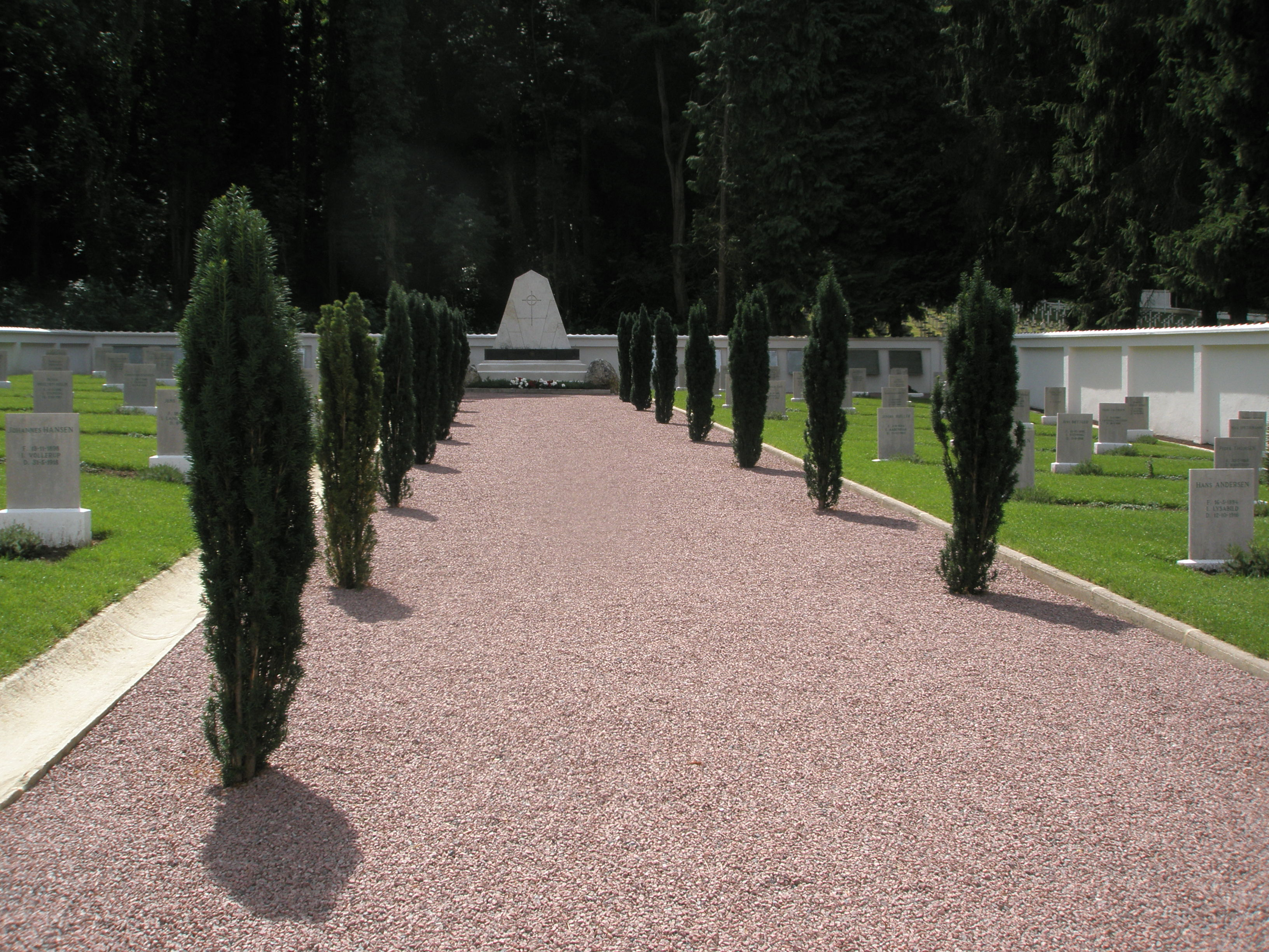 Danish soldiers cemetery in Braine, France